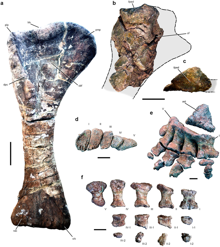 Figure 4: Appendicular skeletal morphology of Notocolossus gonzalezparejasi. (a) Right humerus of the holotype (UNCUYO-LD 301) in anterior view. Proximal end of the left pubis of the holotype (UNCUYO-LD 301) in lateral (b) and proximal (c) views. Right tarsus and pes of the referred specimen (UNCUYO-LD 302) in (d) proximal (articulated, metatarsus only, dorsal [=anterior] to top), (e) dorsomedial (articulated), and (f) dorsal (disarticulated) views. Abbreviations: I–V, metatarsal/digit number; 1–2, phalanx number; ast, astragalus; cbf, coracobrachialis fossa; dpc, deltopectoral crest; hh, humeral head; ilped, iliac peduncle; of, obturator foramen; plp, proximolateral process; pmp, proximomedial process; rac, radial condyle; ulc, ulnar condyle. Scale bars, 20 cm (a–c), 10 cm (d–f).